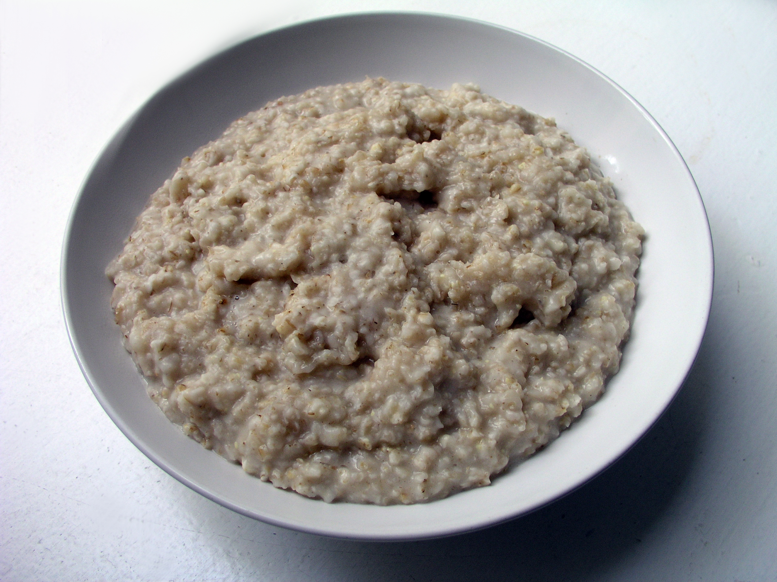 Oatmeal (here: oat,water,salt)